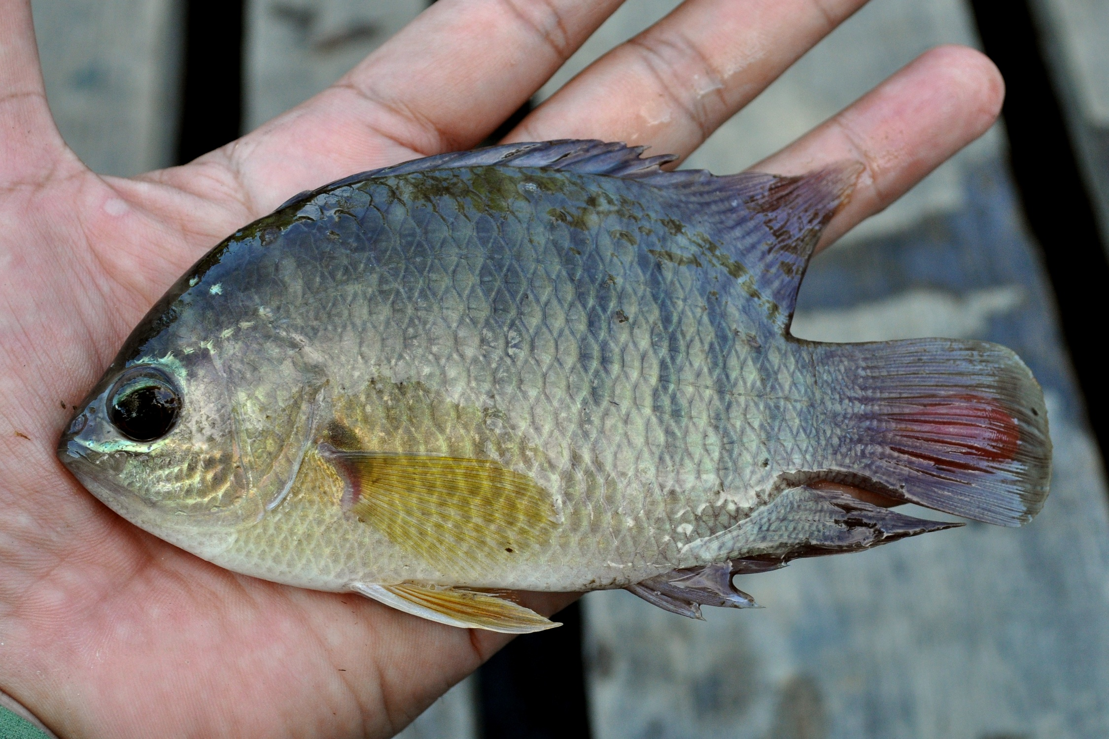 Catopra, Pristolepis fasciata, ca. 10cm SL. From Sambas, West Kalimantan, Indonesia.